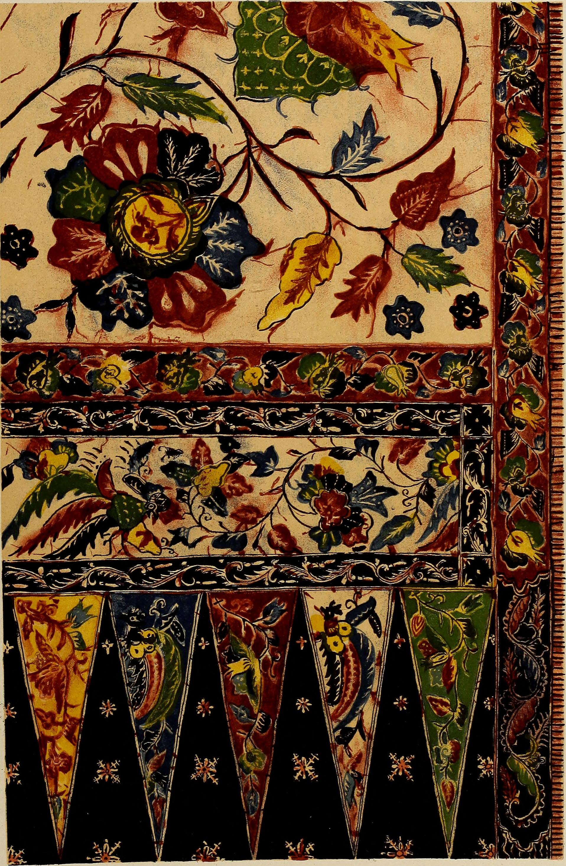 Title: De inlandsche kunstnijverheid in Nederlandsch Indië Year: 1912 (1910s) Authors: Jasper, J. E Pirngadie, Mas Subjects: Decorative arts Batik Textile fabrics Weaving Publisher: 's-Gravenhage, Mouton & co. Text Appearing Before Image: Fig. 25. Het ophangen en drogen van de doeken,die pas met soga gekleurd zijn. Vrouwenarbeid. Text Appearing After Image: Plaat 3. KAÏN GRÈSIKKAN OF KAÏN DOELITTAN. (Zie blz. 40, 41, 46, 70, 227, 228.) mijn werk over de weef kunst in den Archipel, in Sumatra als a m b a 1 a u (in Atjeh als m a 1 o ë)bekend is, en ook wel g a 1 a - g a 1 a genoemd wordt. Deze verfstof, welke een mooi karmijnrood geeft, bestaat vermoedelijk uit de afscheidingspro-ducten van de cochenielje-schildluis. In zijn opstel: Gala-gala (Teijsmania, jaargang 1901J, schrijft Dr. W. G. Boorsma:„De cultuur van cochenielje is uit Amerika naar verschillende andere wereldstreken overge-bracht, o.a. in de vorige eeuw ook naar Java, waar zij evenwel reeds sinds jaren geheel opge-geven schijnt. Trouwens, over het algemeen is de beteekenis van de cochenielje-teelt in onzentijd belangrijk verminderd, tengevolge van de concurrentie der teer-kleurstoffen, die het ge-bruik van karmijn gaandeweg grootendeels verdrongen hebben.De prijs van blëndok trémbalo is/ 120—ƒ 150 per pikoel. Sarikoening. Hieronder wordt in Midden- en West-Ja va iet